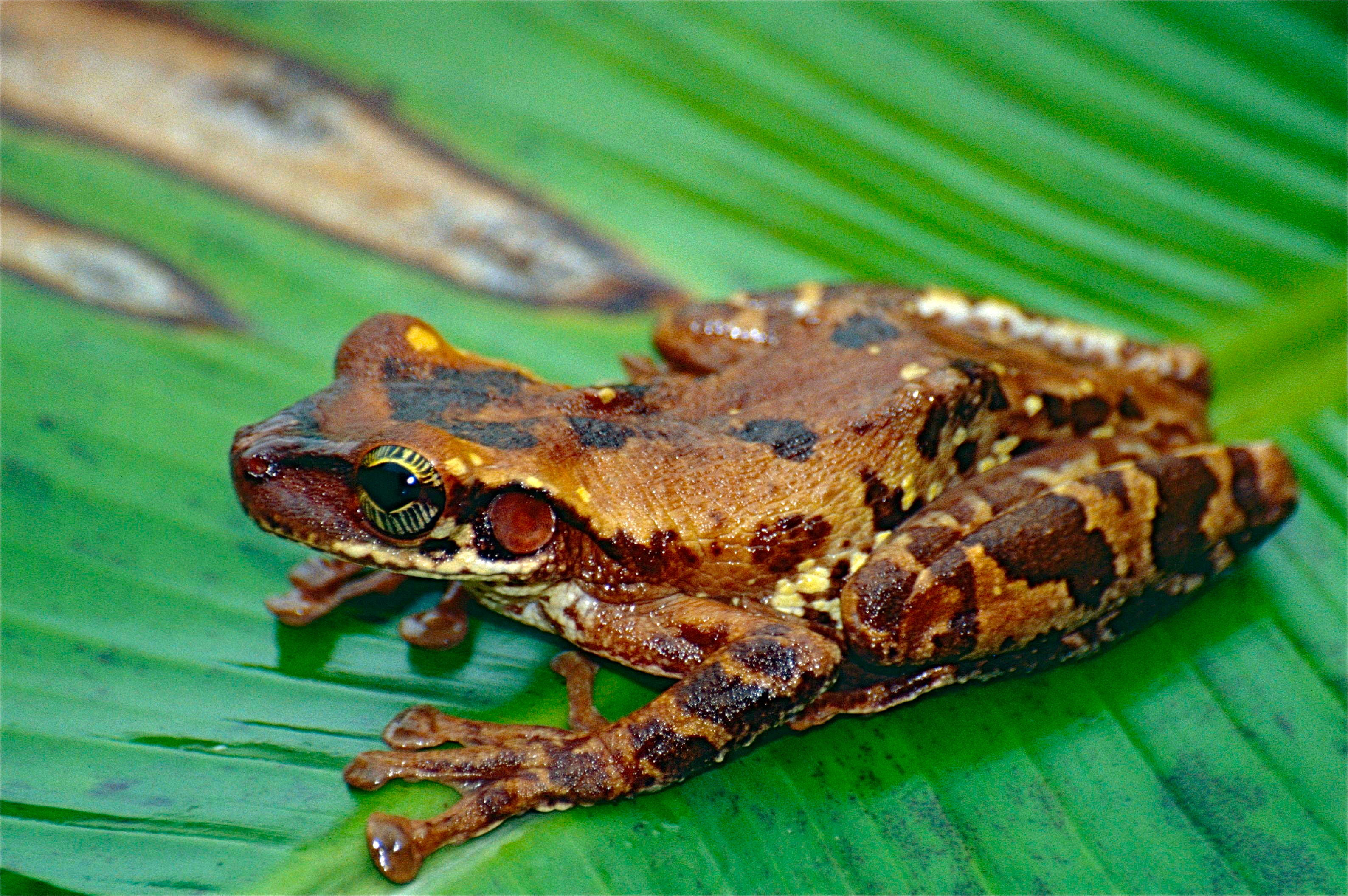 Route de Regina, Guyane, FRANCE Scanned Slide from 2000